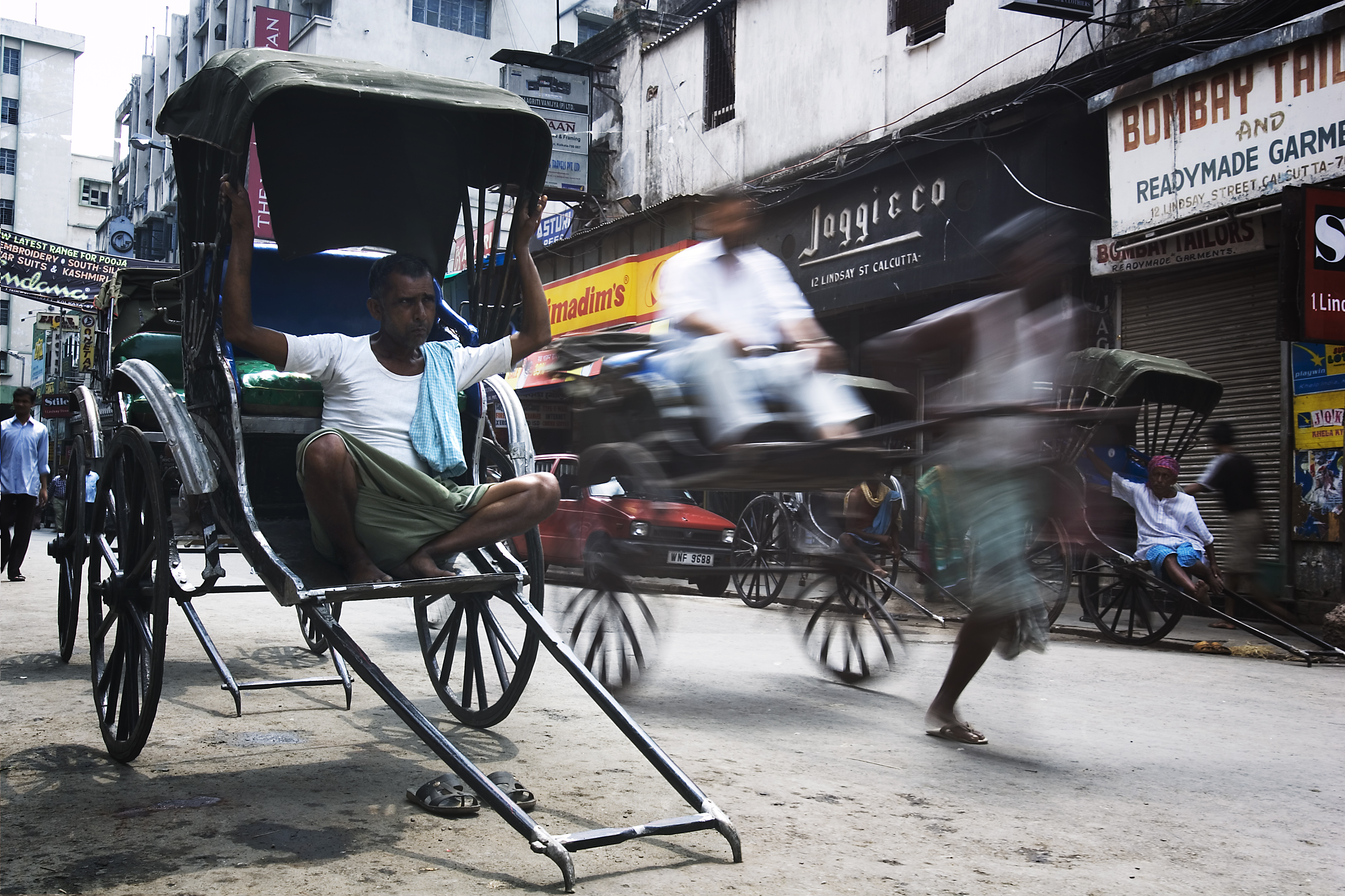 Rickshaw Calcutta Kolkata India